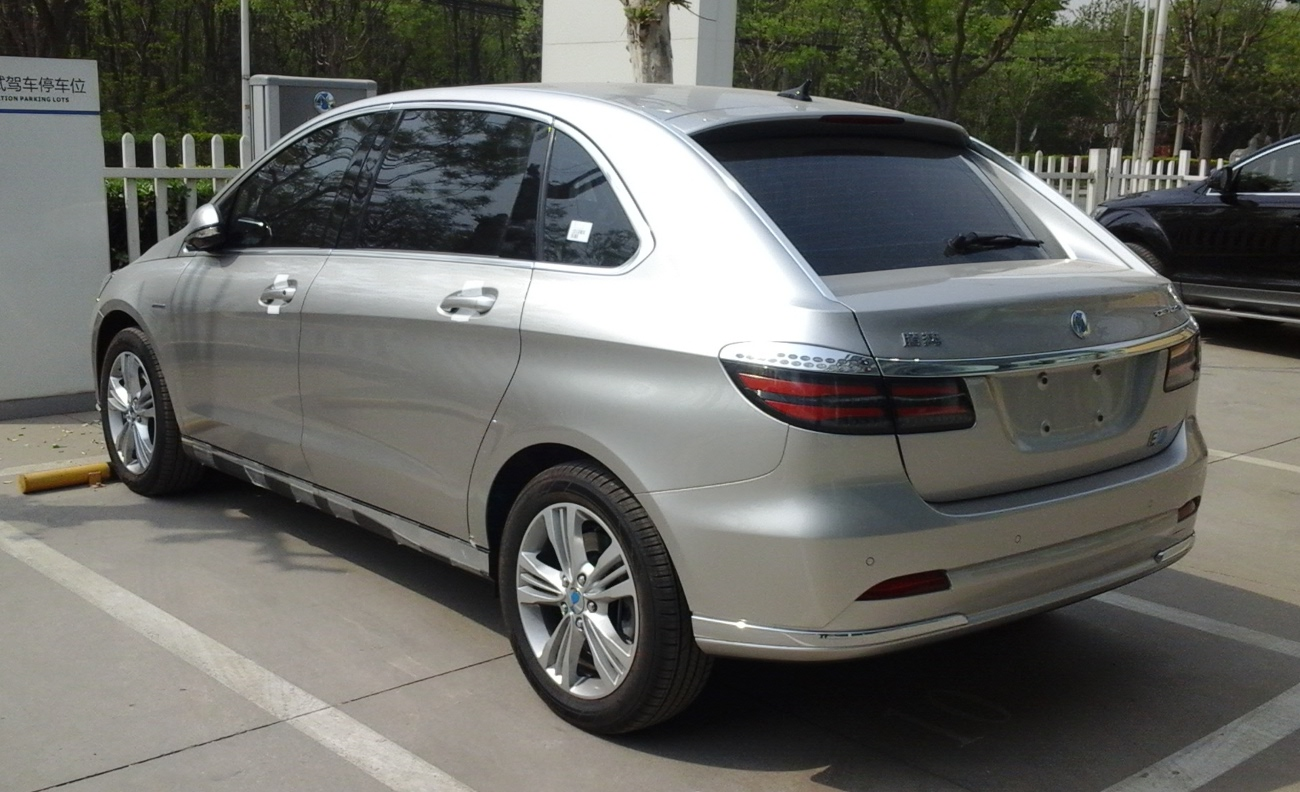 Denza EV photographed in Beijing, China.